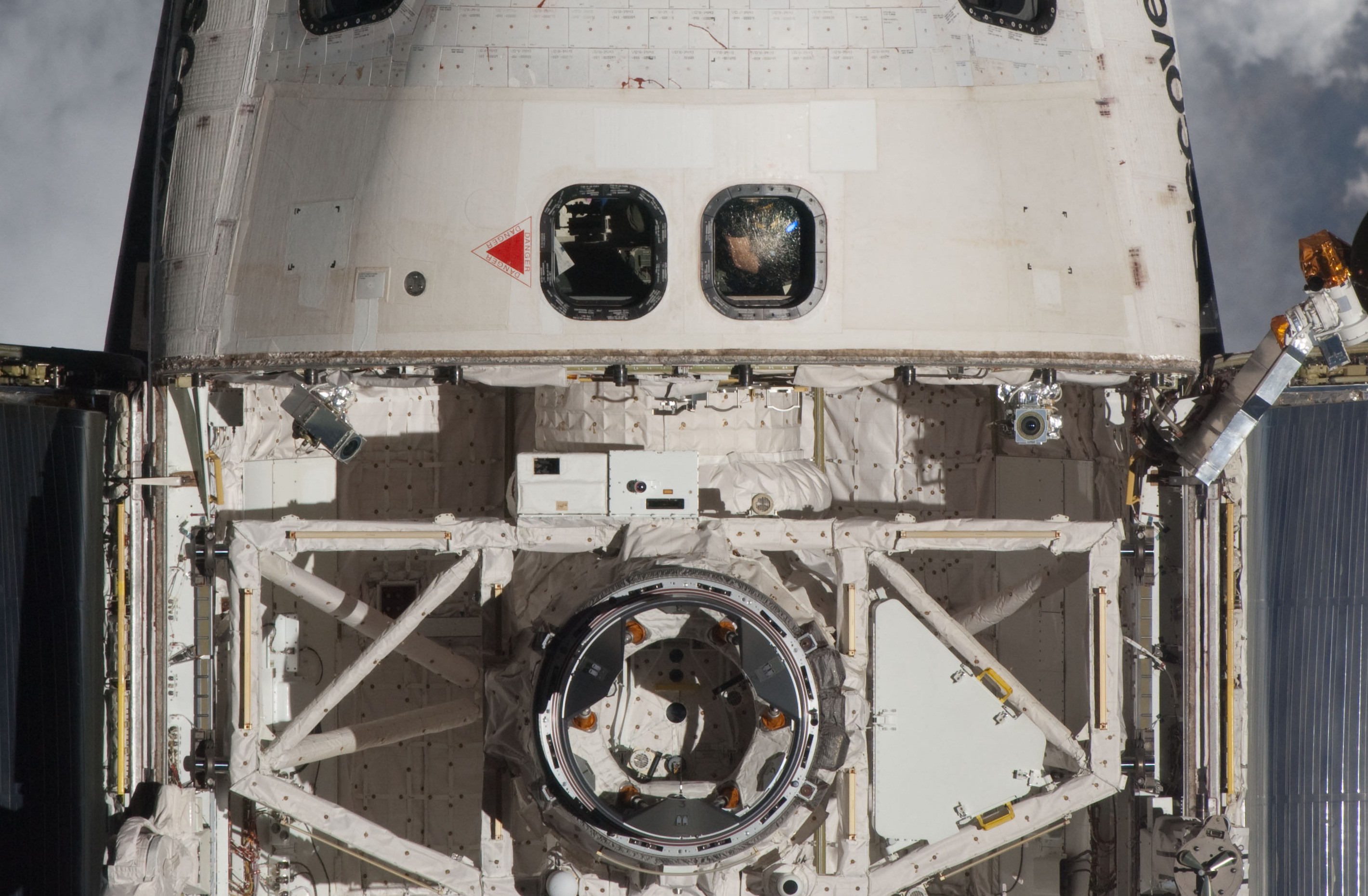 Image of Space Shuttle Discovery approaching the International Space Station during STS-131. The TriDAR 3D navigation system is the box visible just above the docking interface. This view of the crew cabin and part of the cargo bay of the space shuttle Discovery was provided by an Expedition 23 crew member during a survey of the approaching vehicle prior to docking with to the International Space Station. As part of the survey and part of every mission's activities, the STS-131 Discovery crew performed a back-flip for the rendezvous pitch maneuver (RPM). The image was photographed with a digital still camera, using a 400mm lens at a distance of about 600 feet (180 meters).